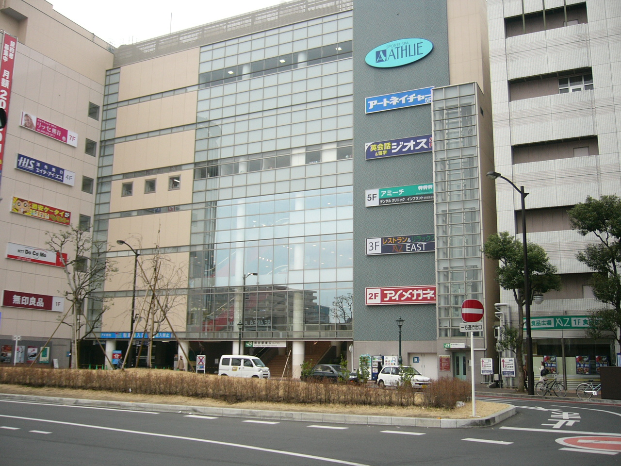 Kumagaya Station (East Entrance)